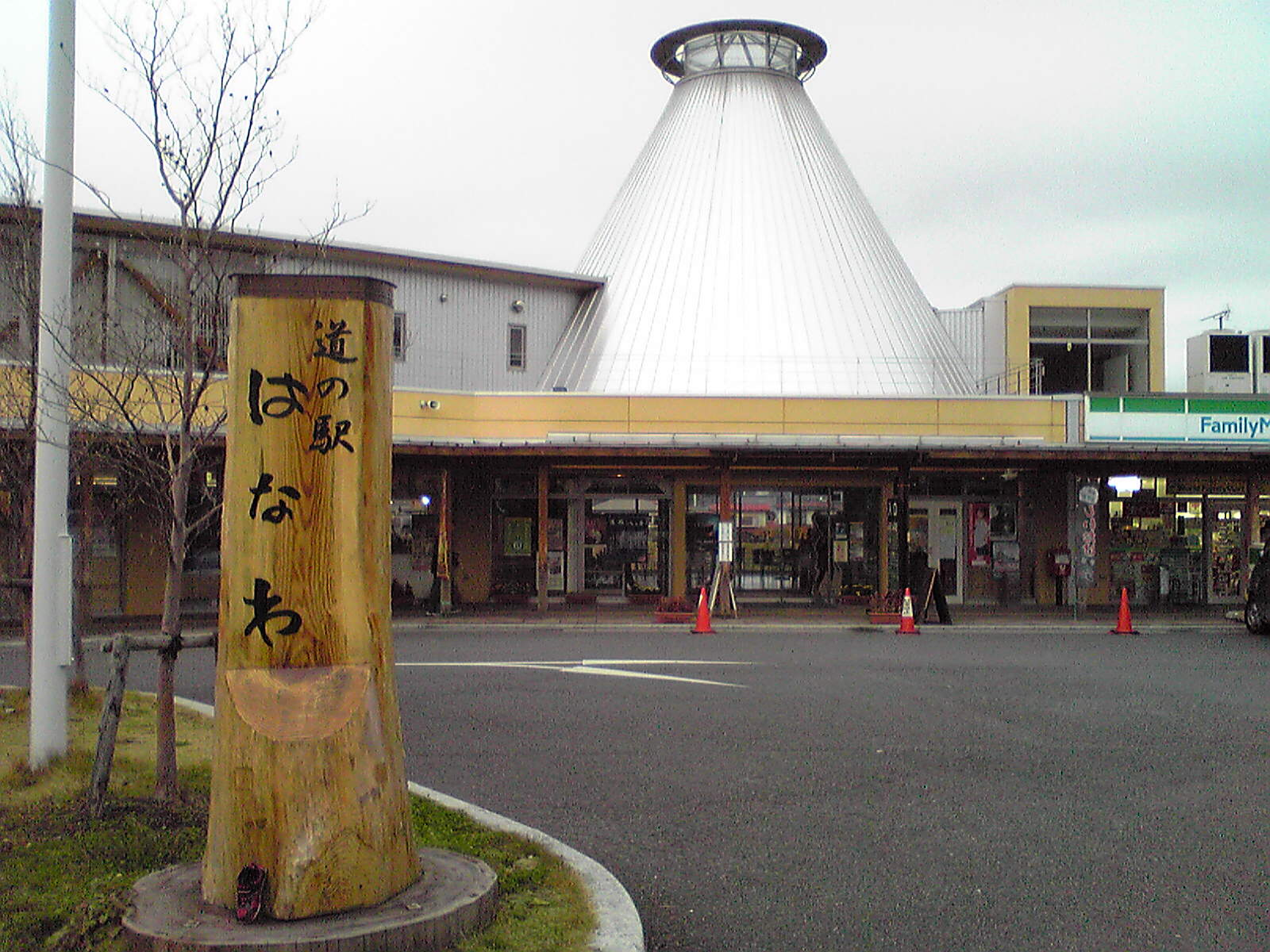 Hanawa, Roadside Station, Fukushima, Japan.